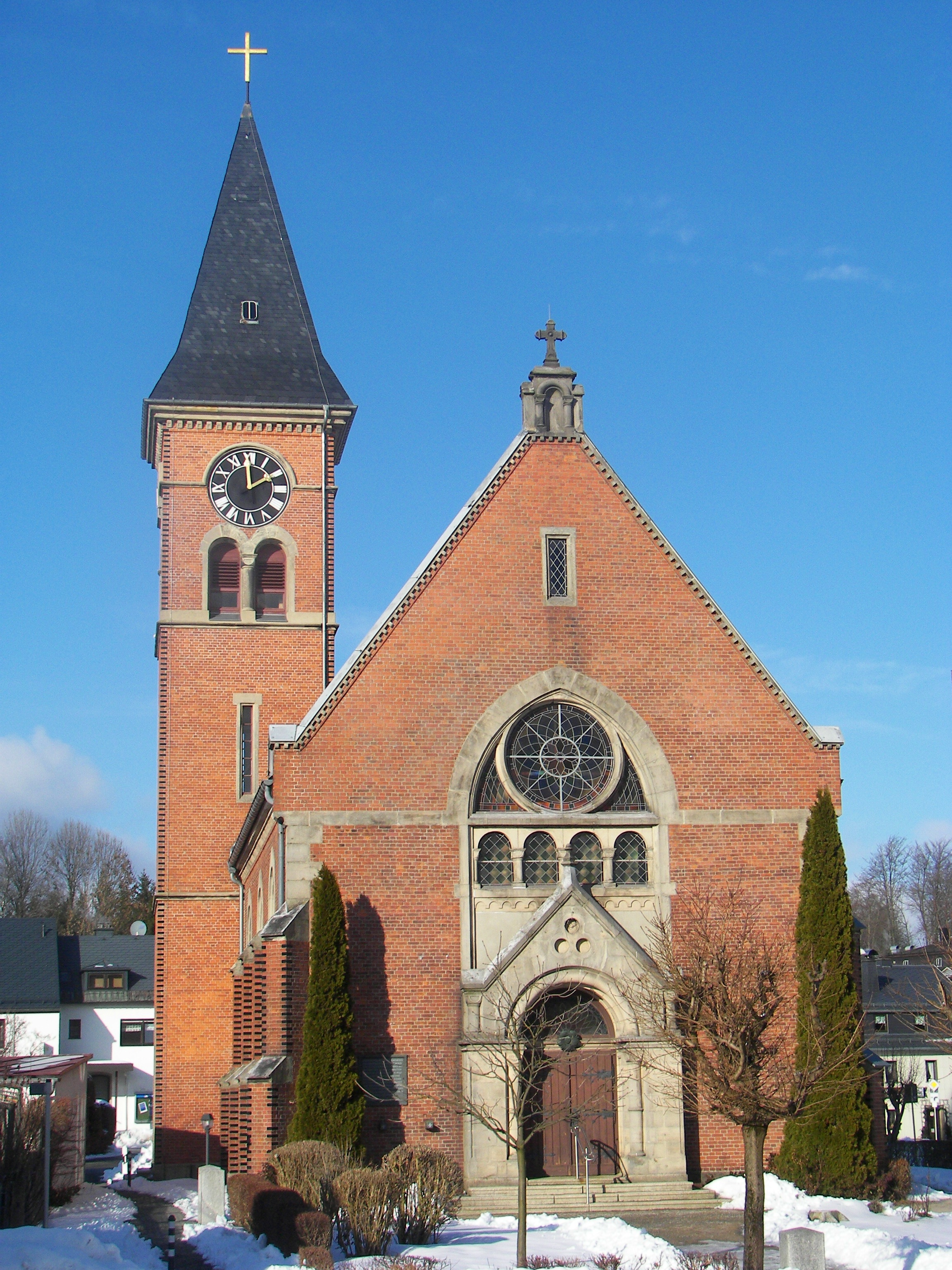 Helmbrechts, Dr. Martin-Luther-Church in city district Wüstenselbitz